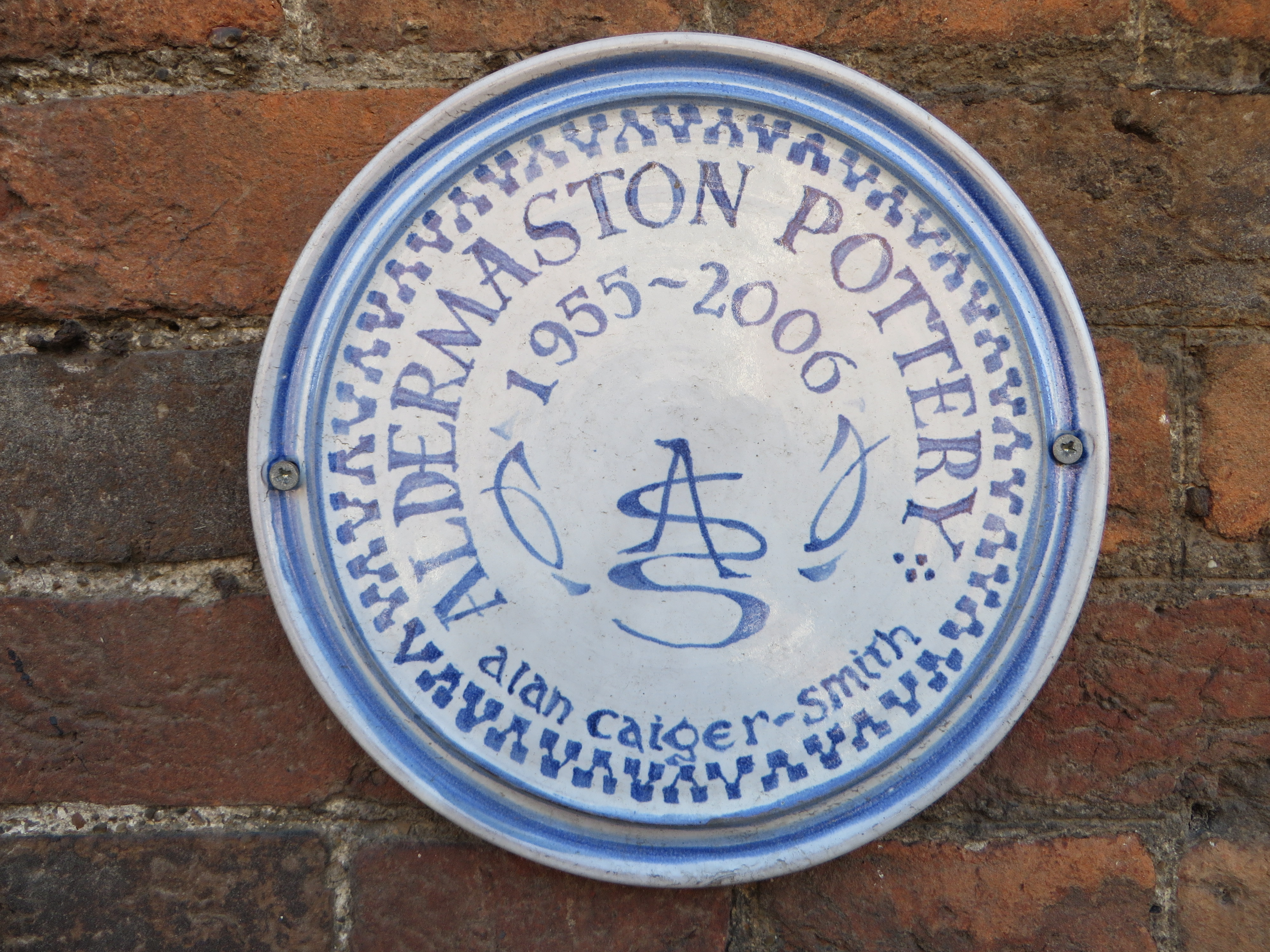 Aldermaston Pottery plaque in the village of Aldermaston, Berkshire, England. The Aldermaston Pottery was established by Alan Caiger-Smith in 1955 and closed in 2006.